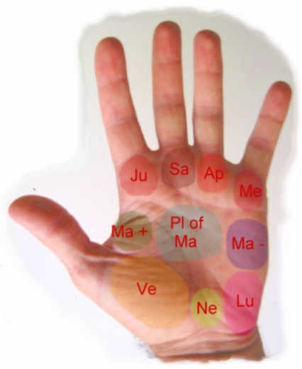 The mounts of the hand used in palm reading.